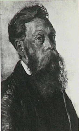 C.A. Lion Cachet (1864-1945). Self portrait (private collection)